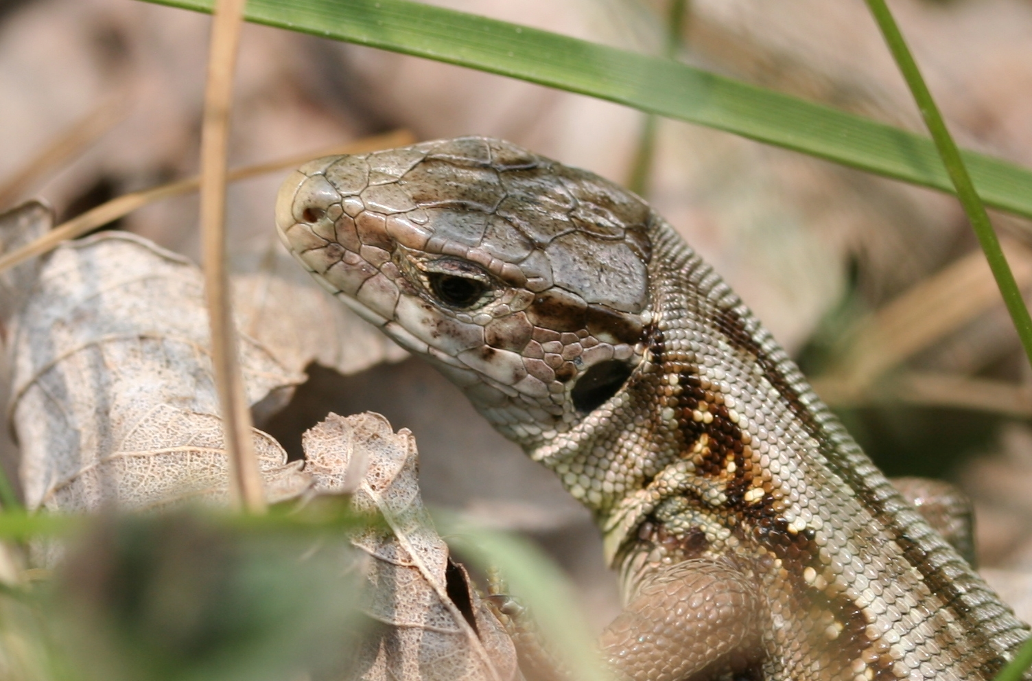 Lacerta agilis 13 May 2006 IJmuiden, the Netherlands